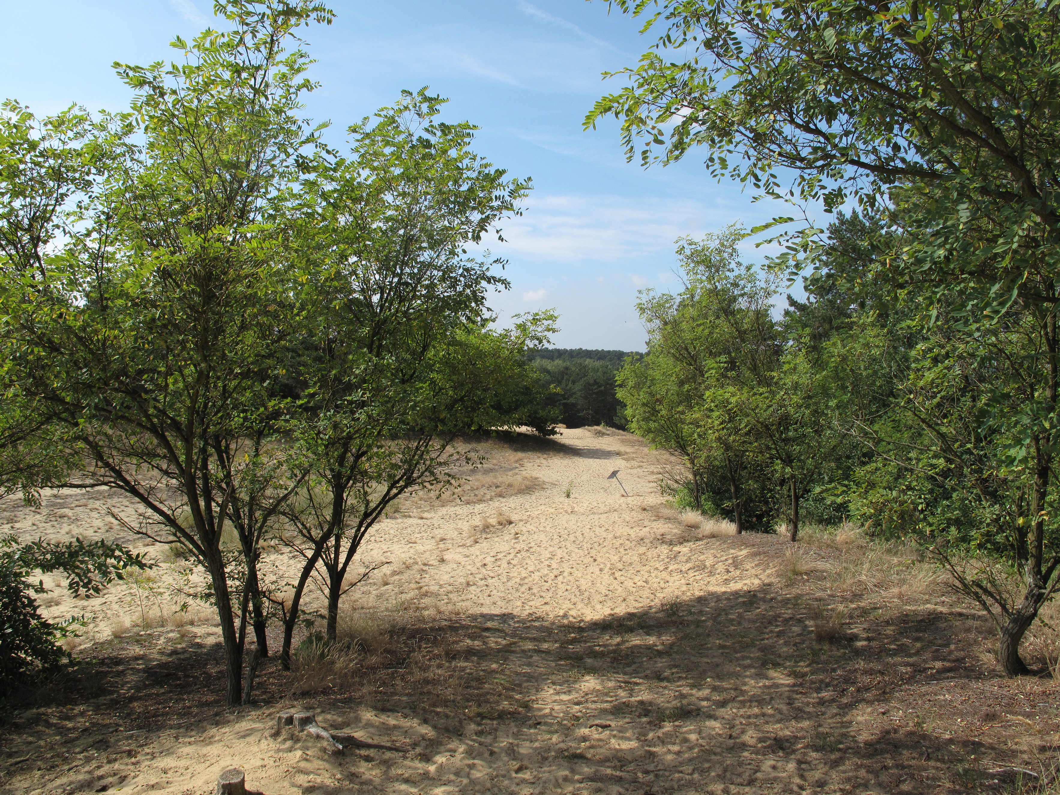 The „Binnendüne Waltersberge“ is one of the largest inland dunes in Brandenburg, Germany. The dune is situated in the town Storkow, District Oder-Spree, just over the eastern border of the Dahme-Heideseen Nature Park. The centre of the area, which covers about 14 hectare, is designated as a Naturschutzgebiet (protected area) and Natura 2000-area. Nearly just beside the northern bank of the Großer Storkower See (lake), rises above the dune with its largest peak, the Storkower Weinberg (69 metres), up to 32 metres over the sea.